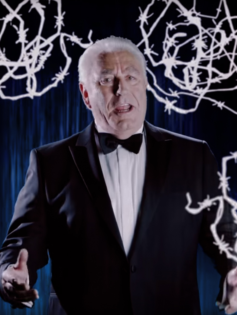 Marco Bakker (2017)